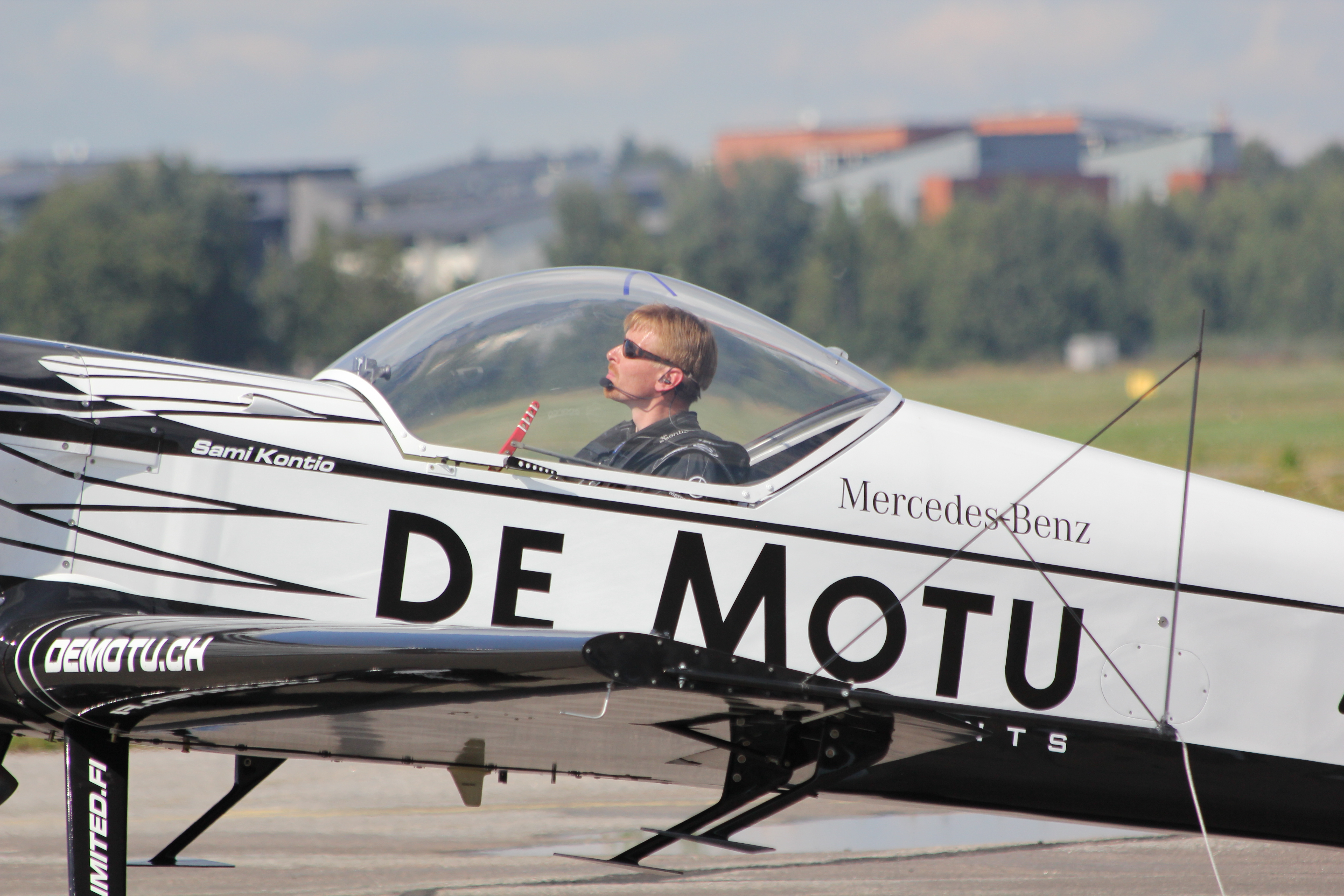 Sami Kontio taxiing in Malmi airport after Sami Kontio challenge air show pylon race third round.